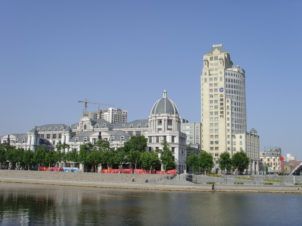 Tianjin Hai River